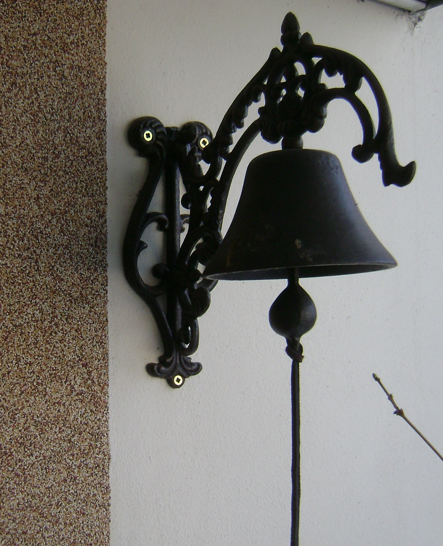 Doorbell